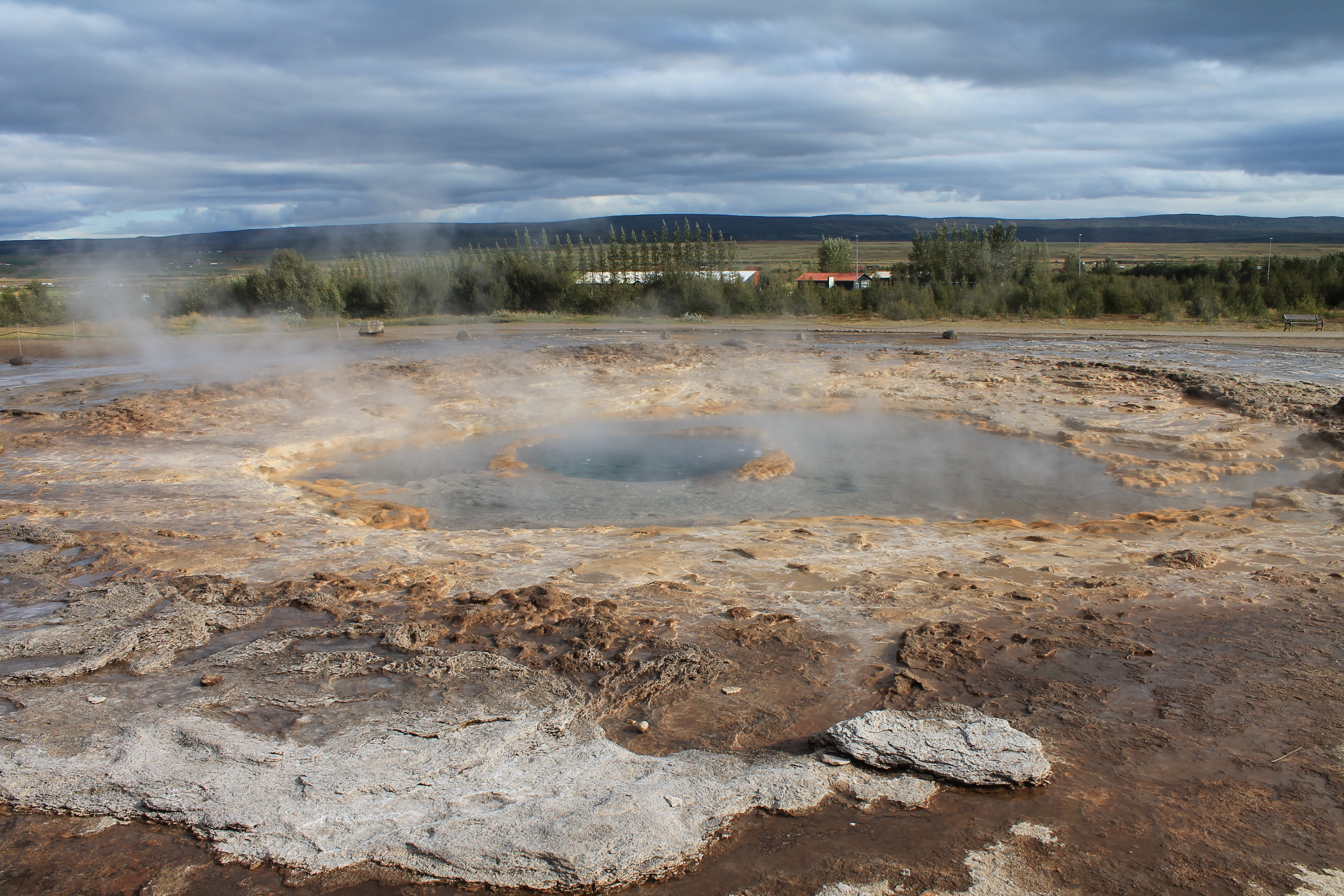 The geyser Strokkur at rest. Taken in Iceland, on September 6th, 2012 with a Canon EOS 1100D